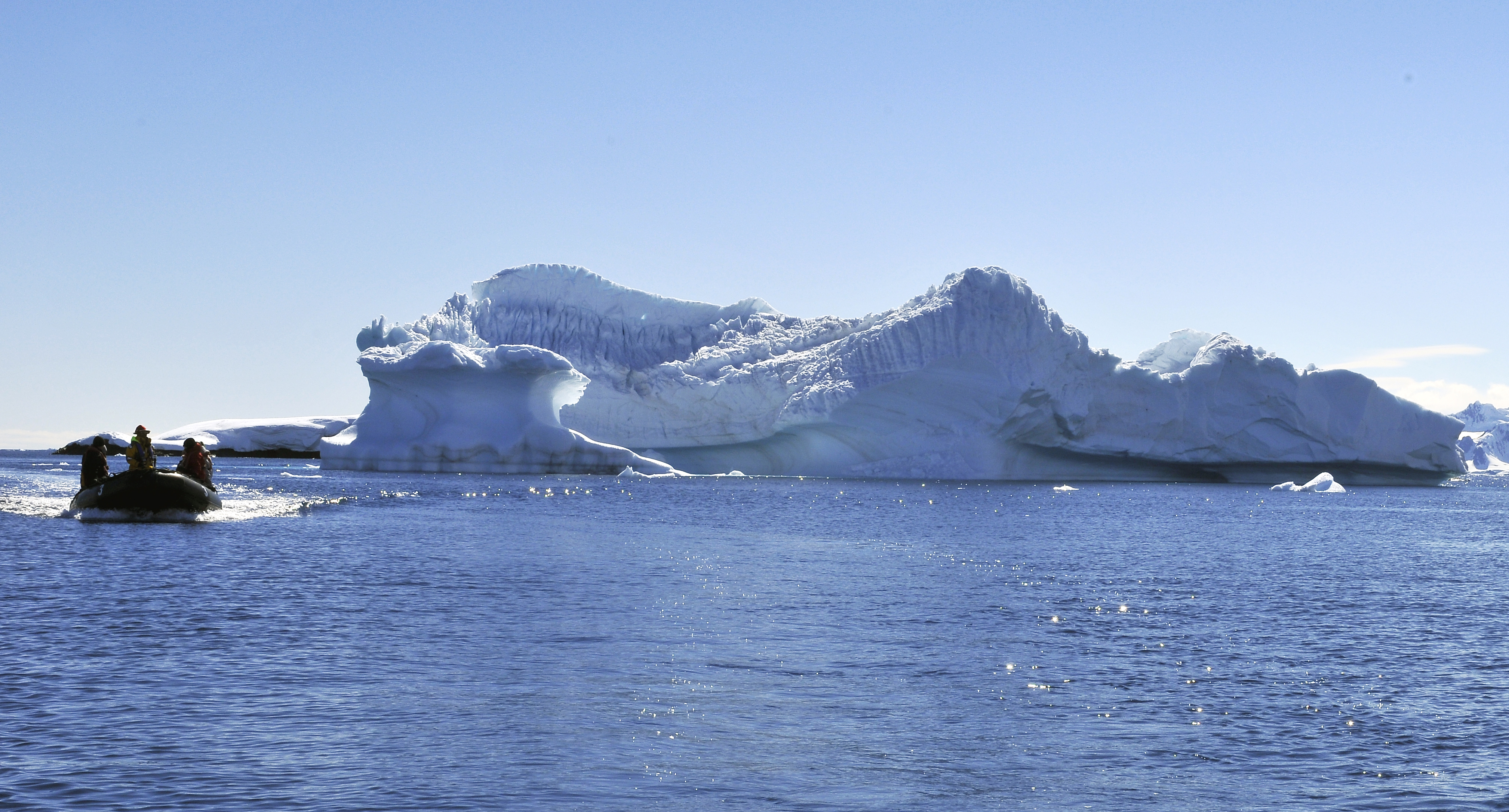 Iceberg South of Foyn Harbor (between the Nansen Island and the Antarctic Peninsula) and touristic boat. South Shetland Islands, Antarctica